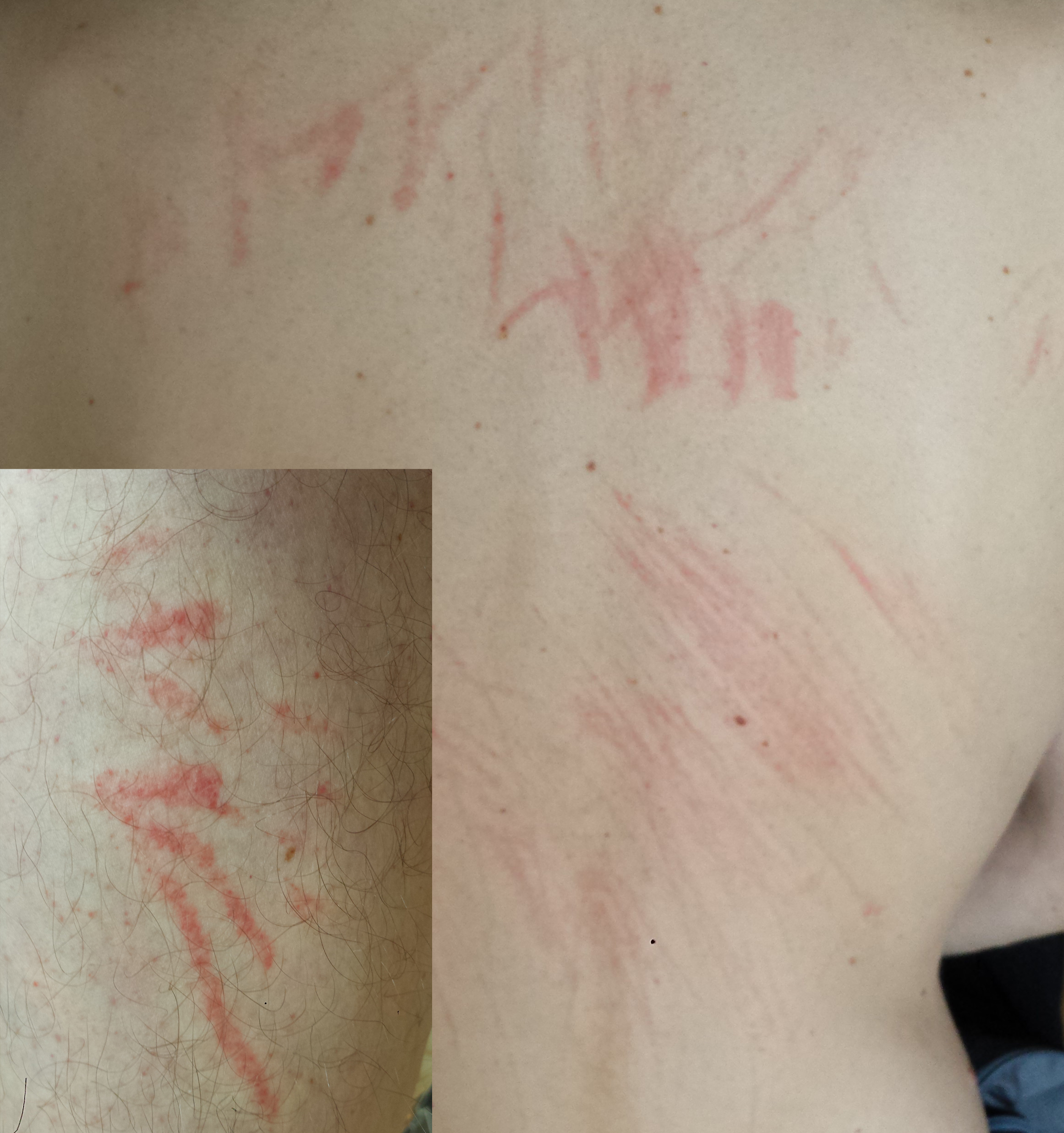 Symptoms on back and leg. Stripes and red spots appear when skin is scratched or spontaneously by friction or contact.